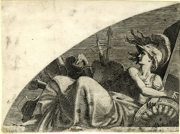 British Museum, Bellona, in armour, leaning on trophies, turned to the left; within semi-arch. c.1540/45 Etching by: Léon Davent After: Francesco Primaticcio Height: 152 millimetres (cut) Width: 210 millimetres Zerner 1969 LD.44 Bartsch XVI.319.34